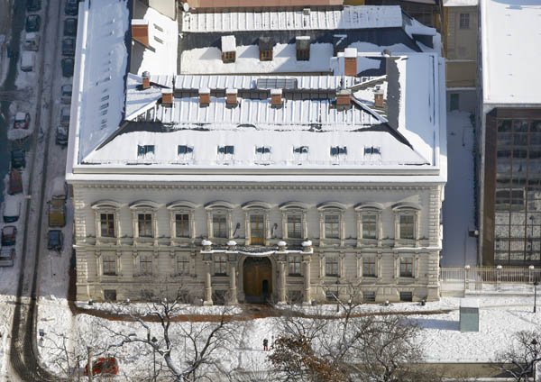 Palota negyed, Hungary, Budapest, aerial photography, disrtict VIII